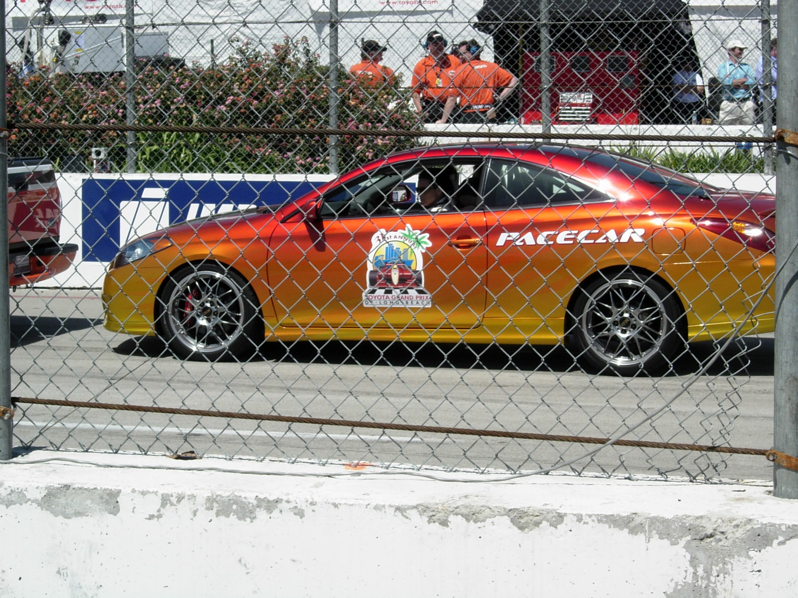 Pace car readies the field, Long Beach GP